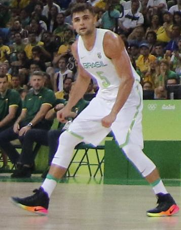 Raulzinho Neto during a 2016 Summer Olympics game versus the Lithuania men's national basketball team.